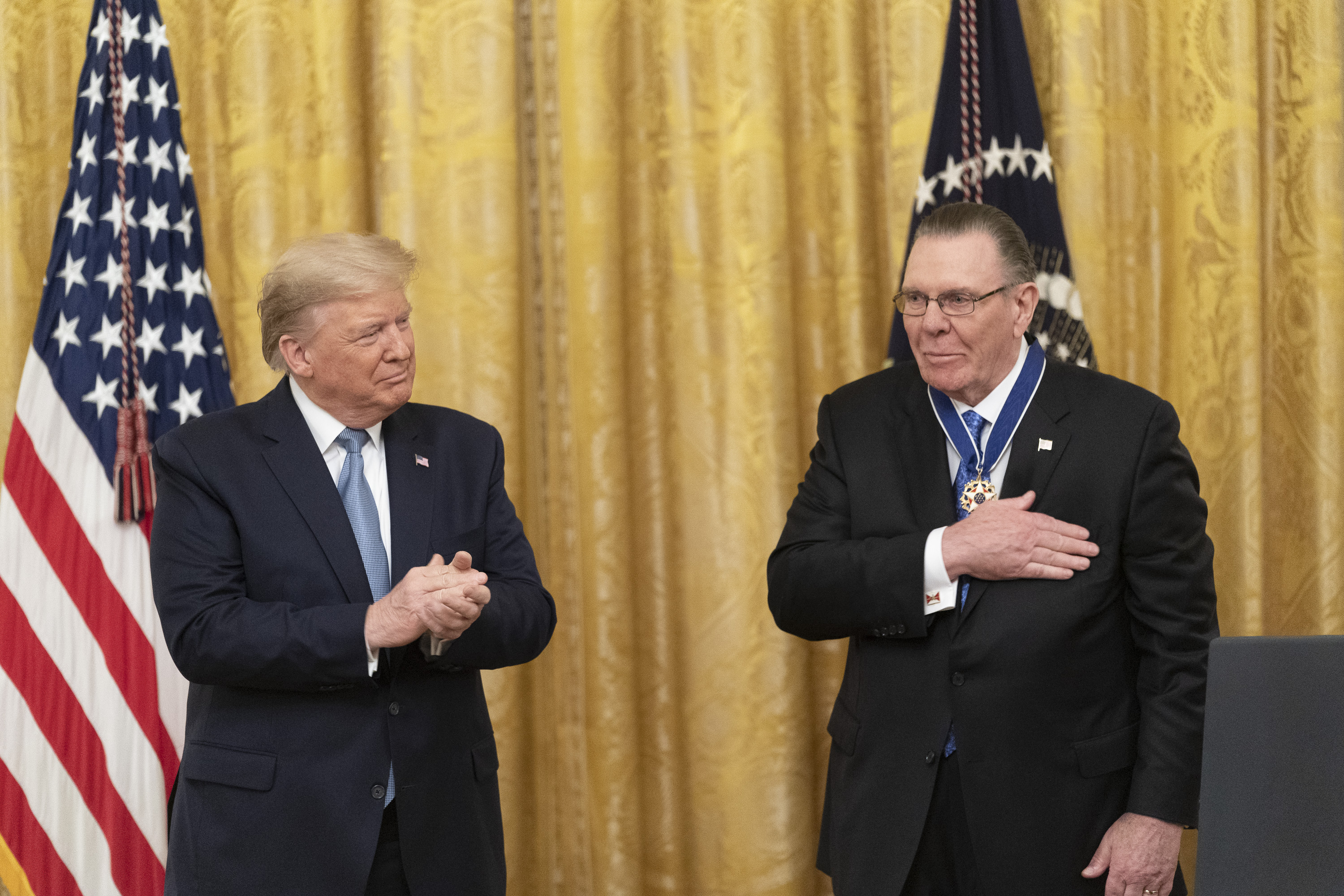 President Donald J. Trump presents the Presidential Medal of Freedom, the nation’s highest civilian honor, to retired four-star U.S. Army General Jack Keane, Tuesday, March 10, 2020, in the East Room of the White House. (Official White House Photo by Joyce N. Boghosian)